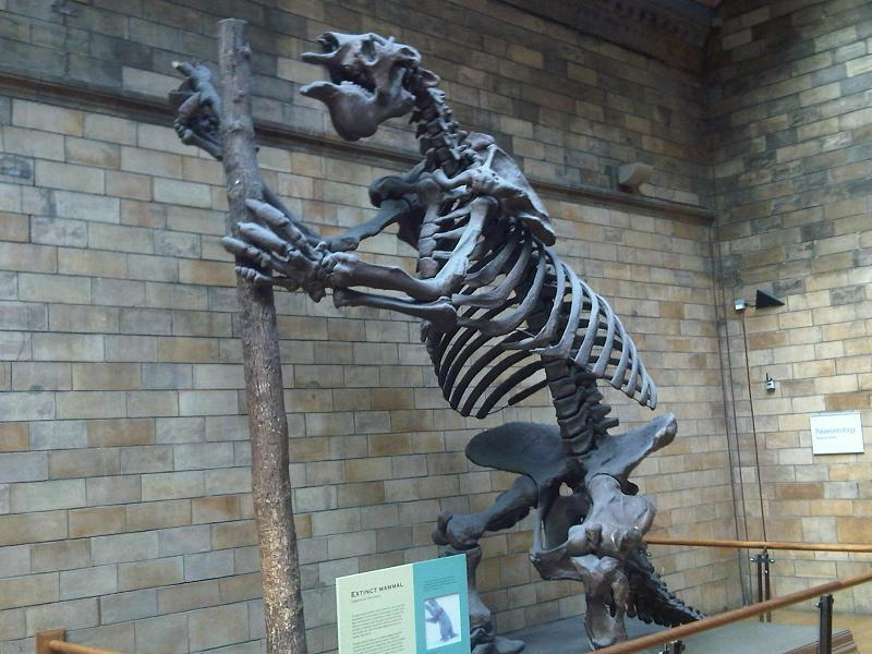 Megatherium americanum at the Natural History Museum in London, England.